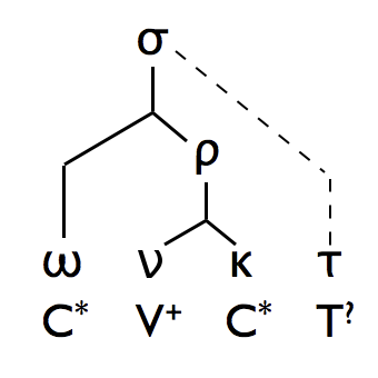 phonologic diagram of a speech syllable (σ), split into rime (ρ), onset (ω), nucleus (ν), coda (κ) and tone (τ)